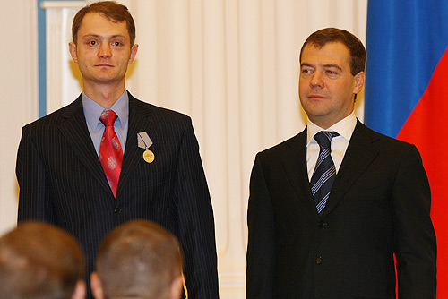 THE KREMLIN, MOSCOW. Ceremony presenting decorations to Russian journalists. Alexander Kots, special correspondent for newspaper Komsomolskaya Pravda, was awarded the Medal for Valour.